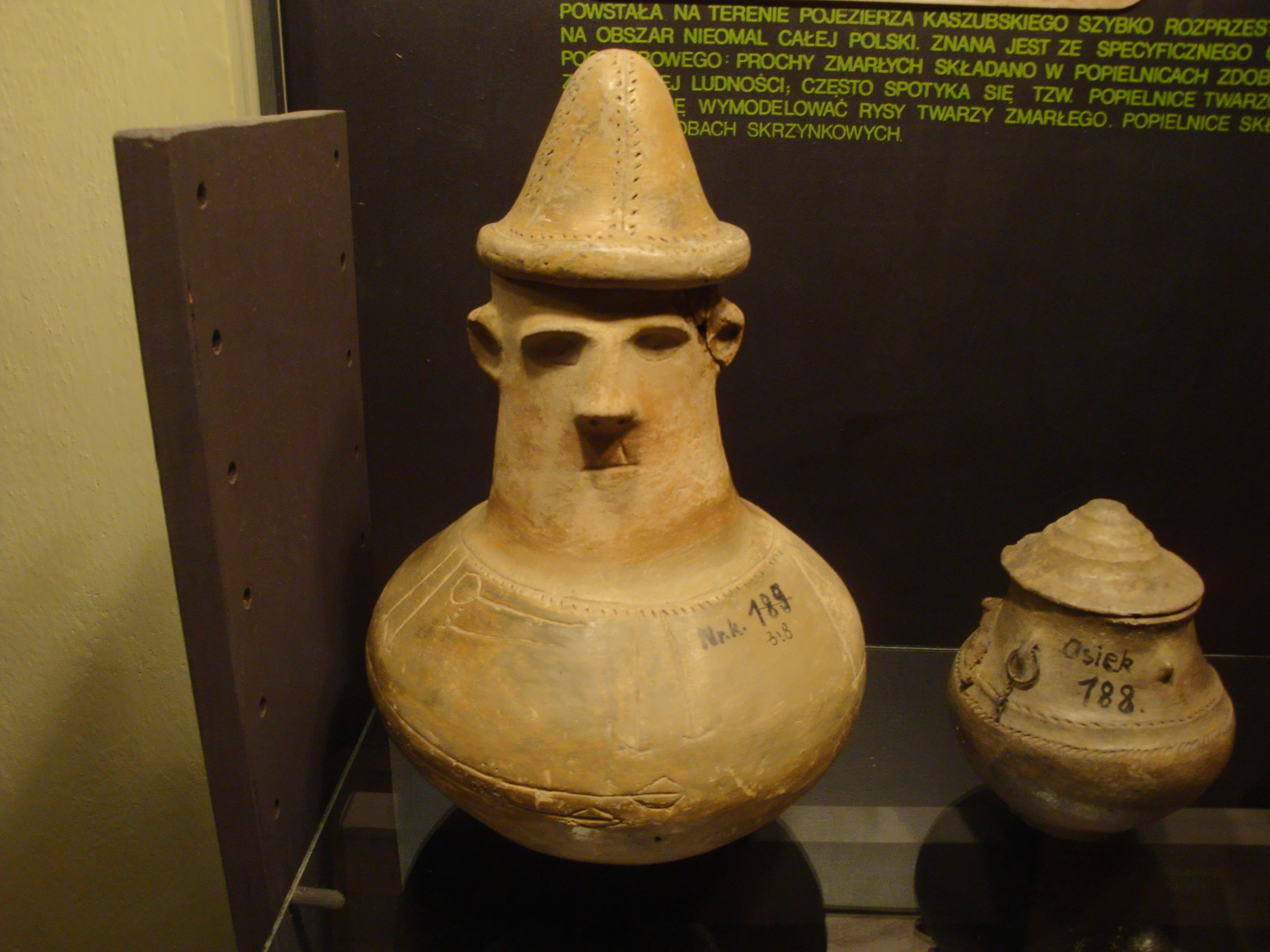 Urns with facial decoration dated 500-150 BC (Pomeranian culture) in Father Dr. Władysław Łęga Museum in Grudziądz, Poland.